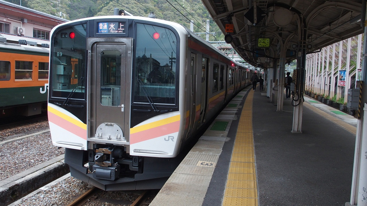 Minakami Station